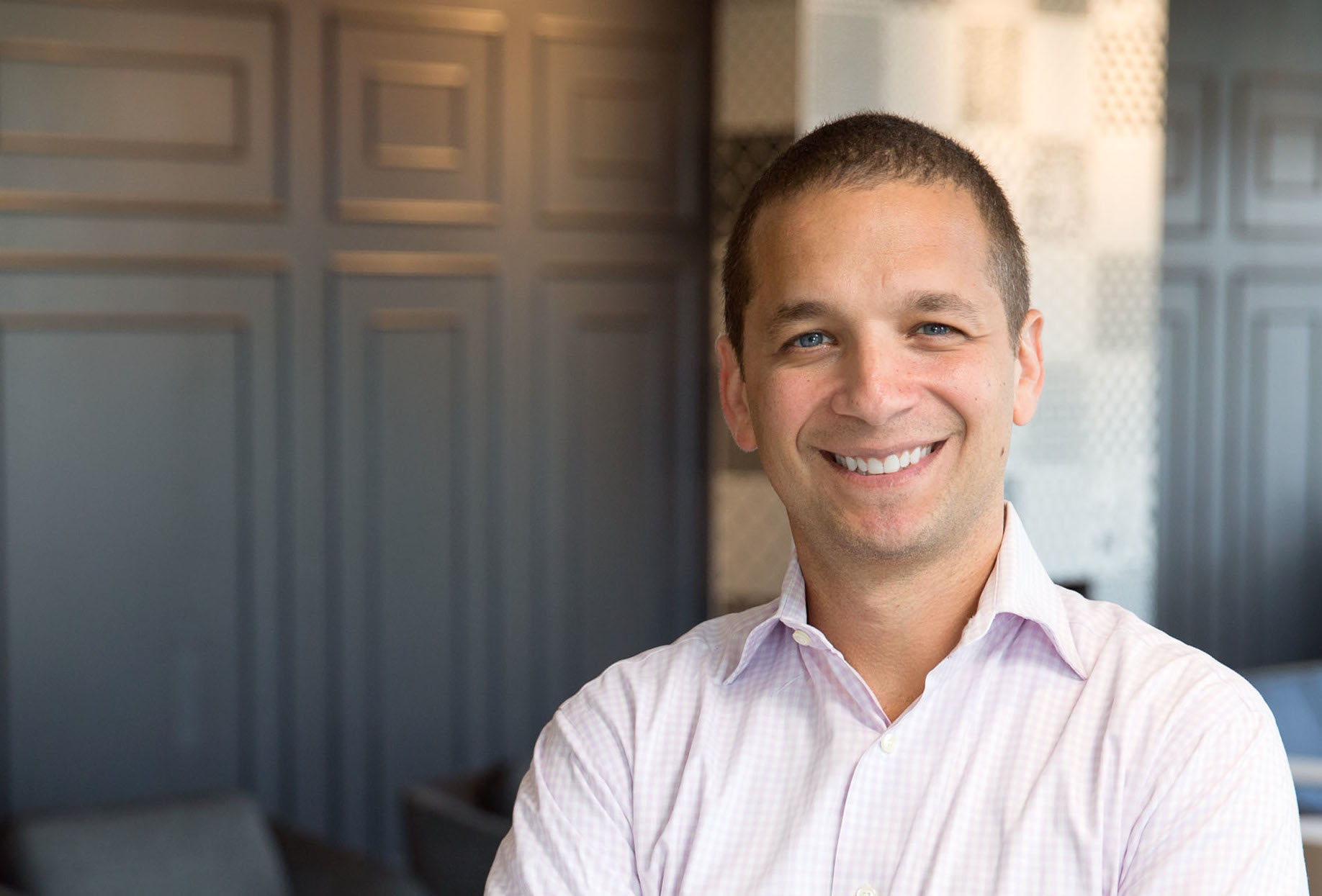 Daniel Roth, executive editor of LinkedIn, formerly of Fortune, Wired, Portfolio and Forbes